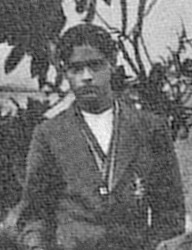 Writer R. K. Narayan in the mid 1920s